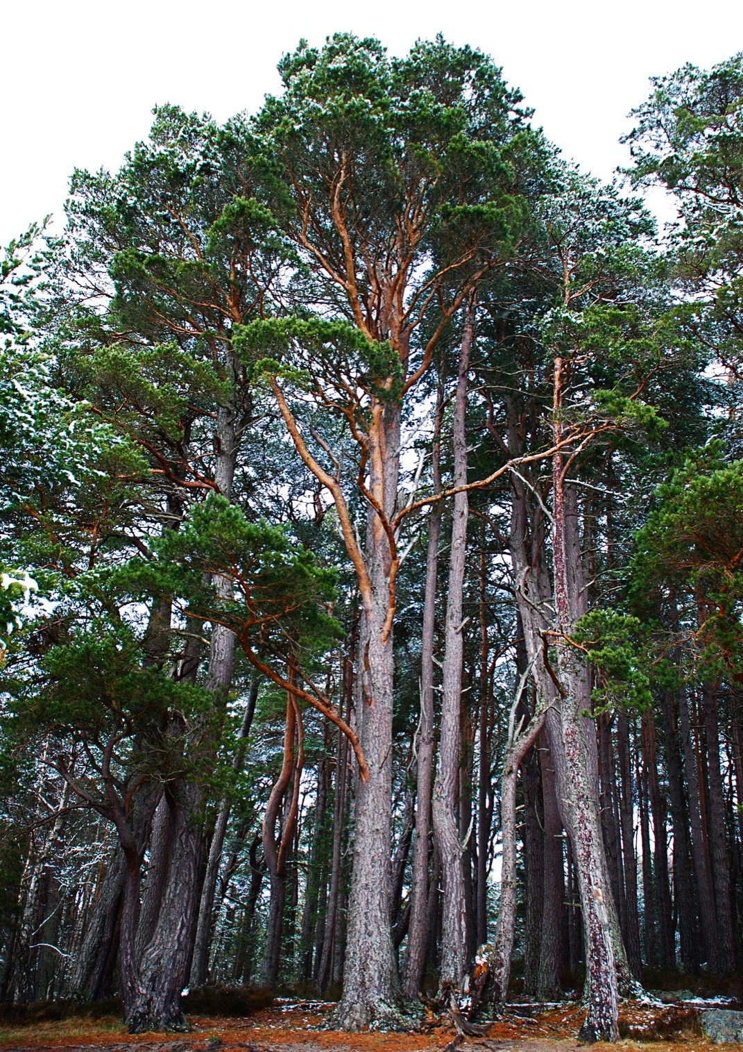 Pinus sylvestris with light snow cover, Loch Garten, Nethybridge, Scotland, 57°14'44"N 3°42'09"W, 240m altitude.